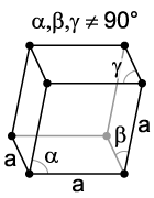 Rhombohedral crystal structure. Angles α, β, γ are equal.